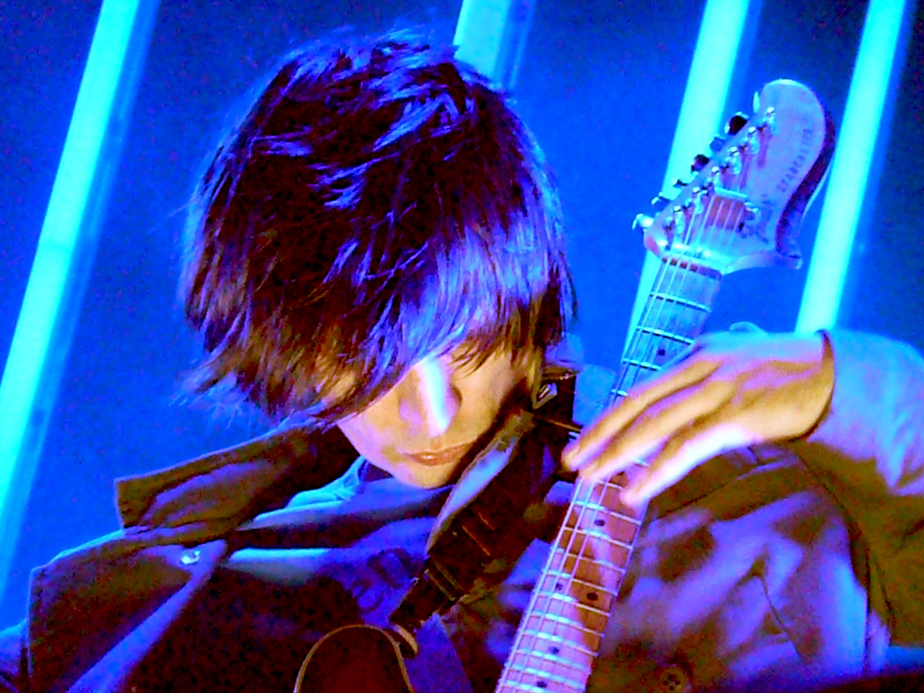 Jonny Greenwood, guitarist of Radiohead. Fender Starcaster (1976-1982, semi-acoustic guitar)